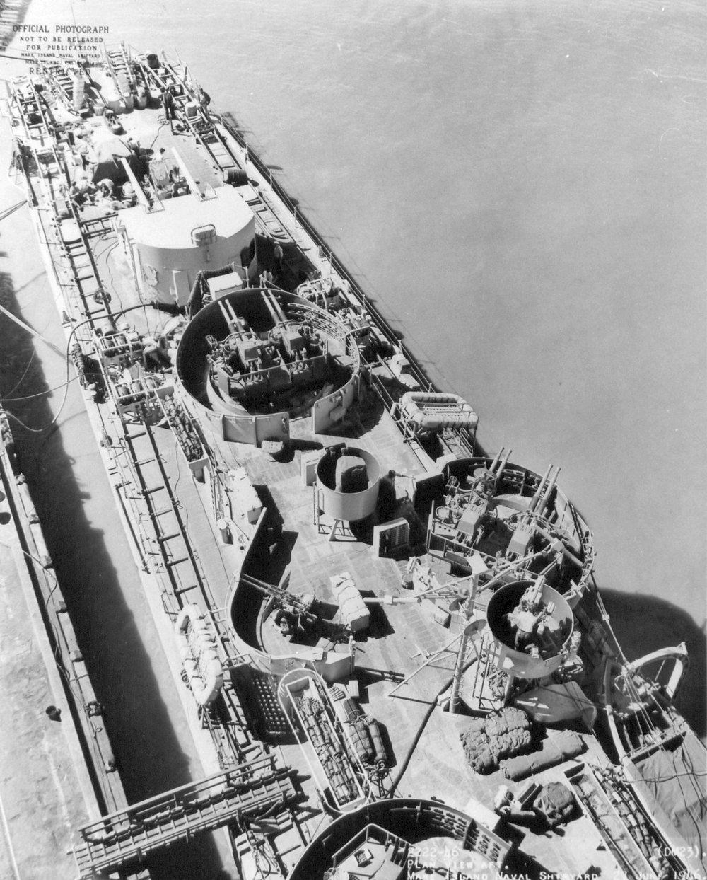 Aft plan view of USS Robert H. Smith (DM-23) at Mare Island on 27 June 1946. She was under going repairs at the yard from 30 April to 1 July 1946.